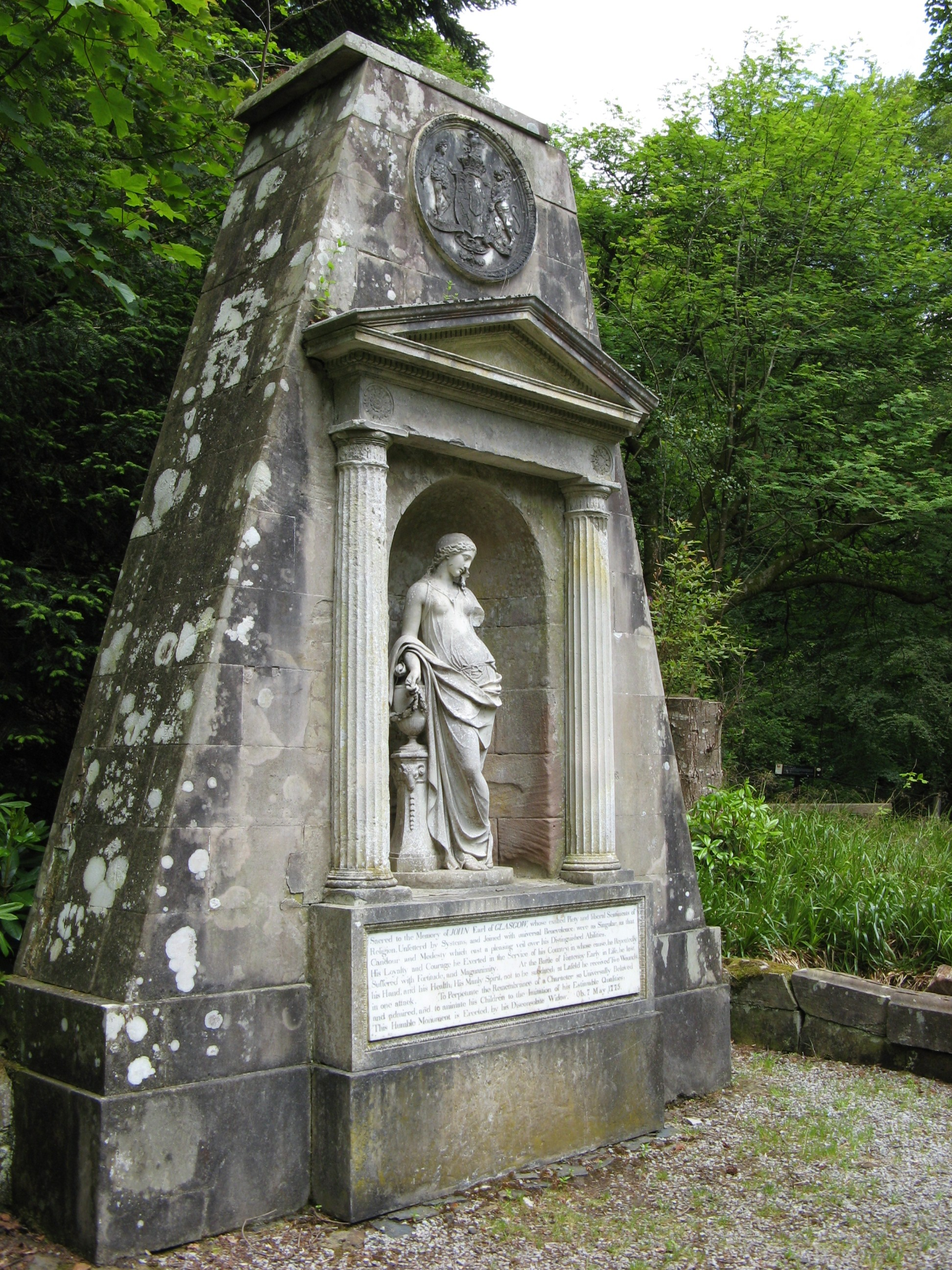 Monument to the 3rd Earl of Glasgow, in the grounds of Kelburn Castle, near Largs, Scotland.